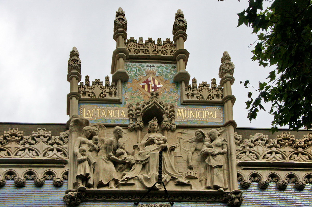 Casa de la Lactància - Catalan Modernisme (1908-1913, Antoni de Falguera i Sivilla y Pere Falqués i Urpí)